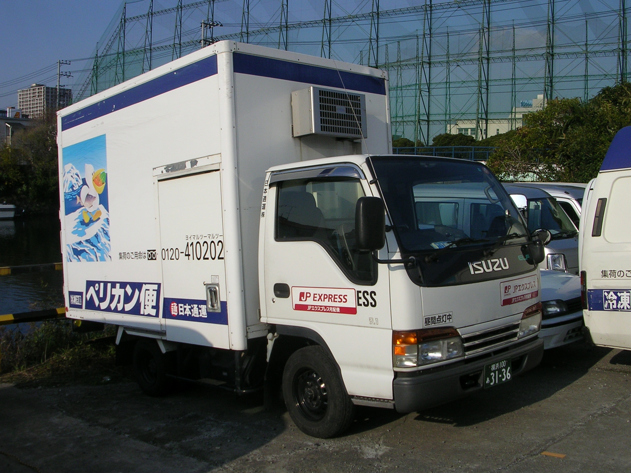 Took at JRF Higashi-Takashima Sta.